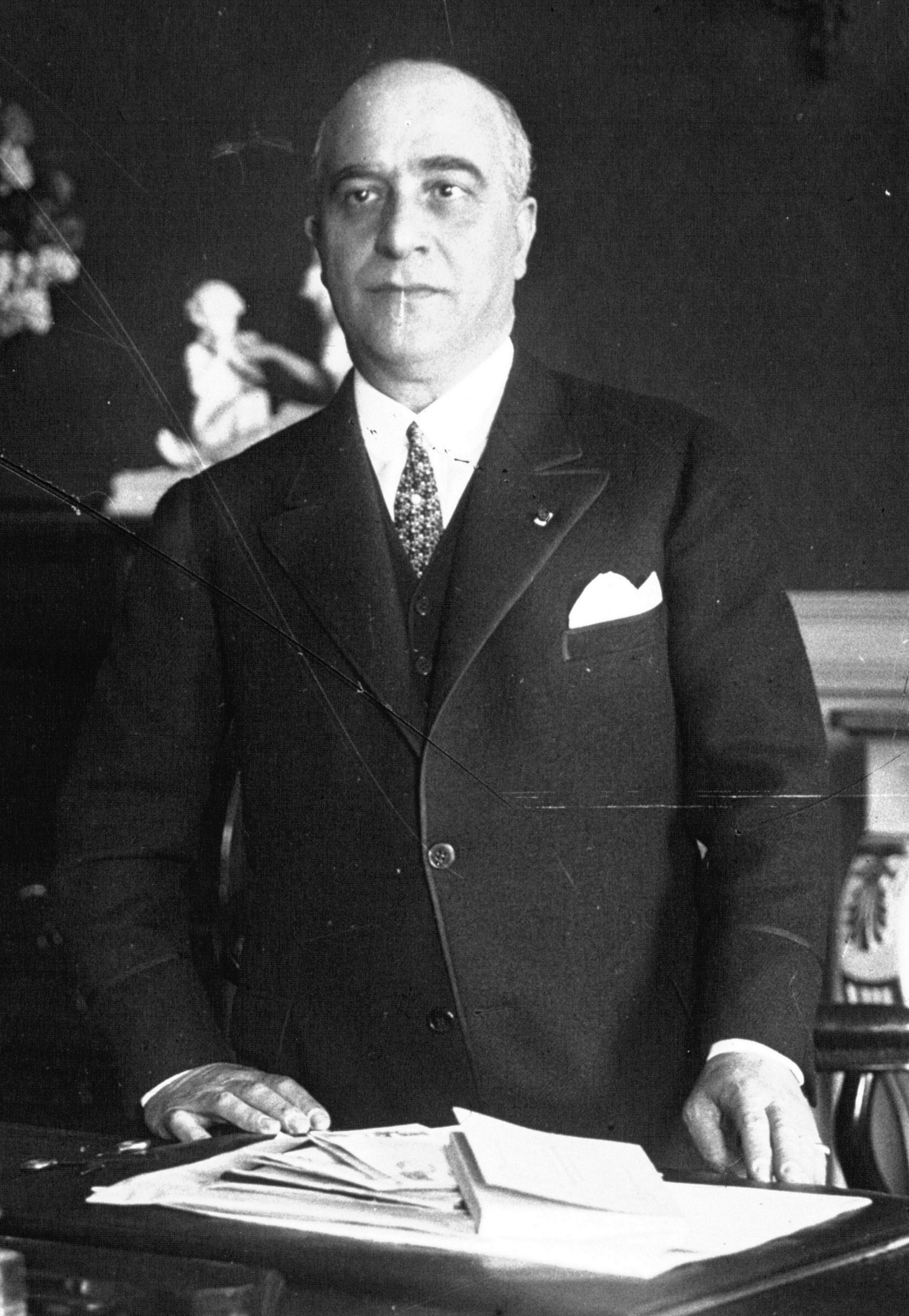 French civil servant and politician Jean Chiappe (1878-1940).